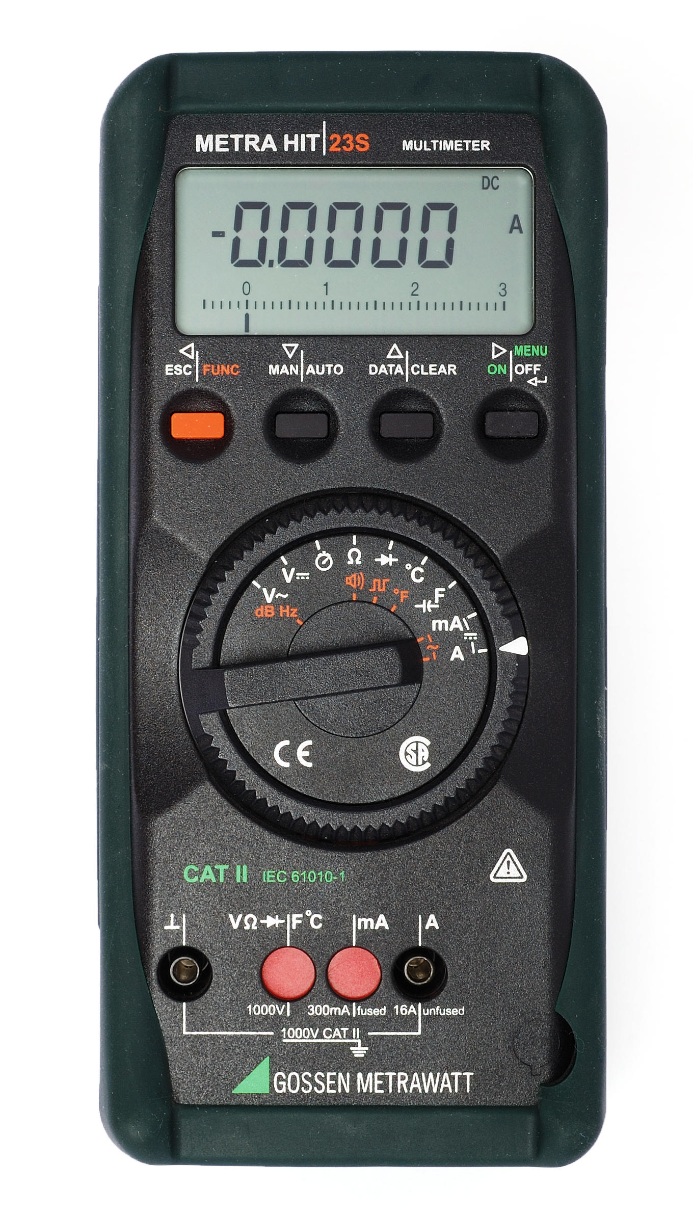 Precision multimeter Gossen Metra Hit 23S in a protective rubber cover. Measuring functions V, dB, Ohm, F, Hz, °C/°F, resolution 10 µV, 10 m Ohm, frequency and pulse generator, IR data interface, measurement value storage.